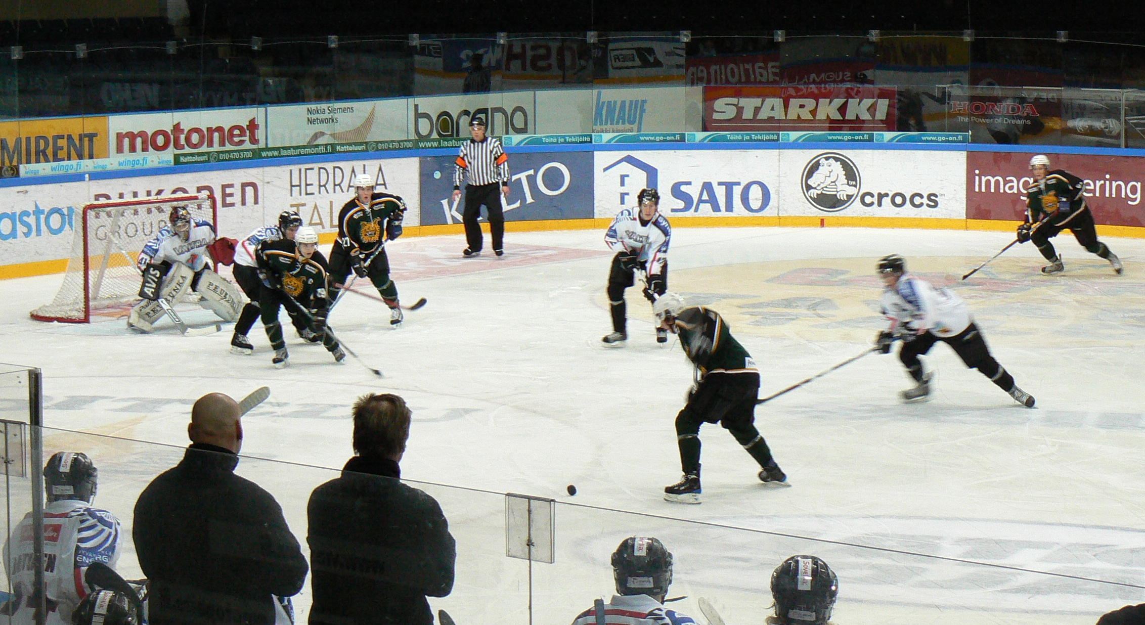 A Finnish ice hockey Junior A SM-liiga game between Ilves Tampere and JYP Jyväskylä, October 2008.